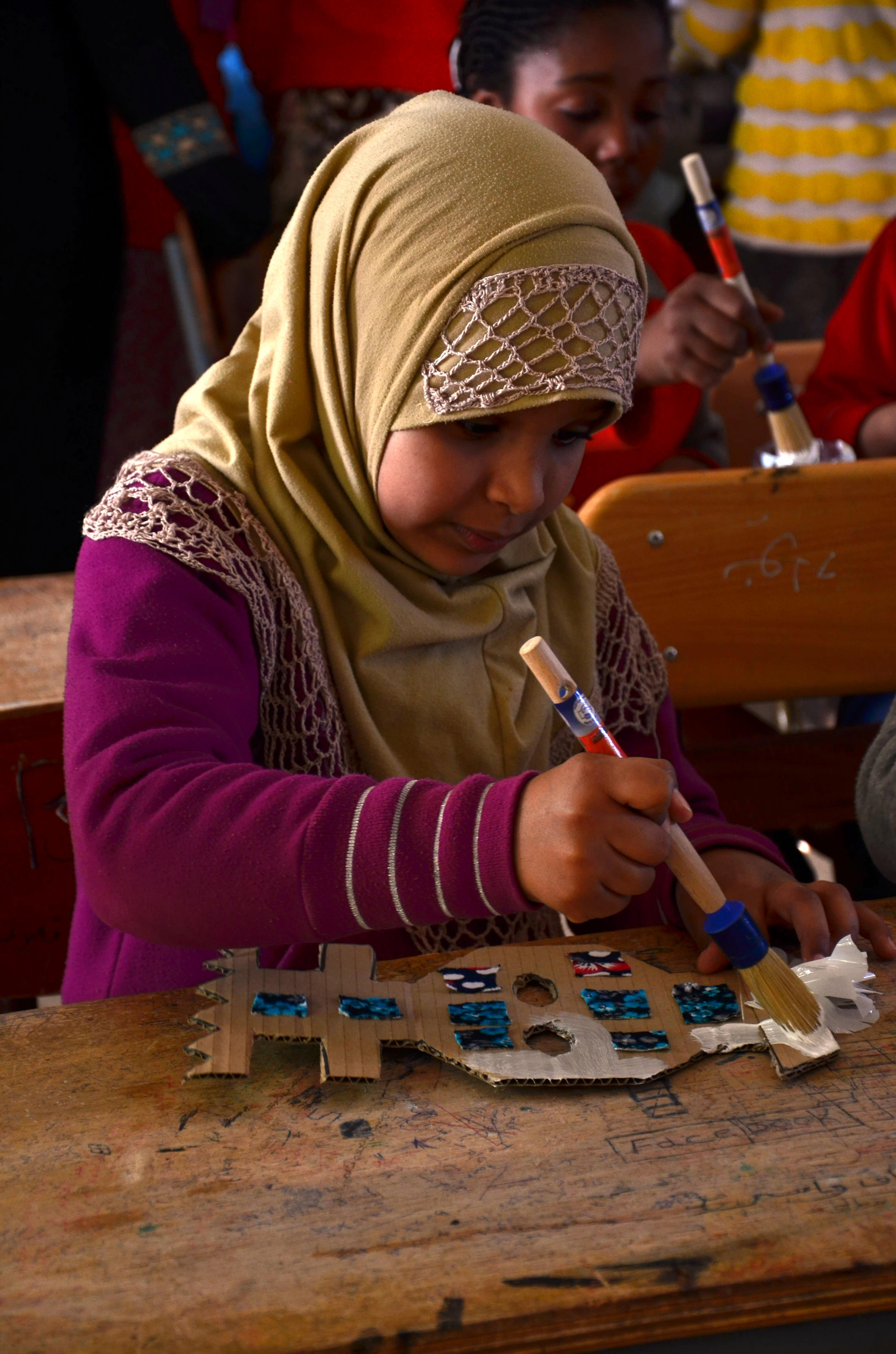 This is an image with the theme "Play" from: Algeria